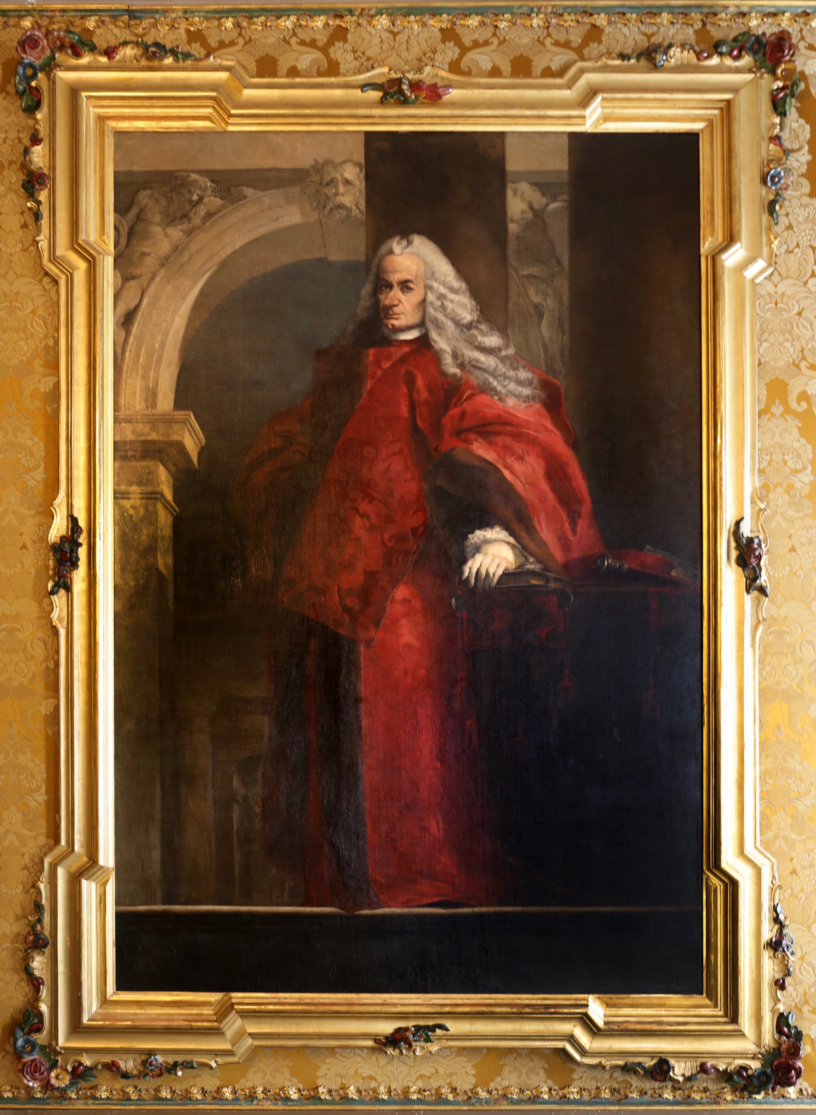 Pinacoteca Querini Stampalia (Venice)